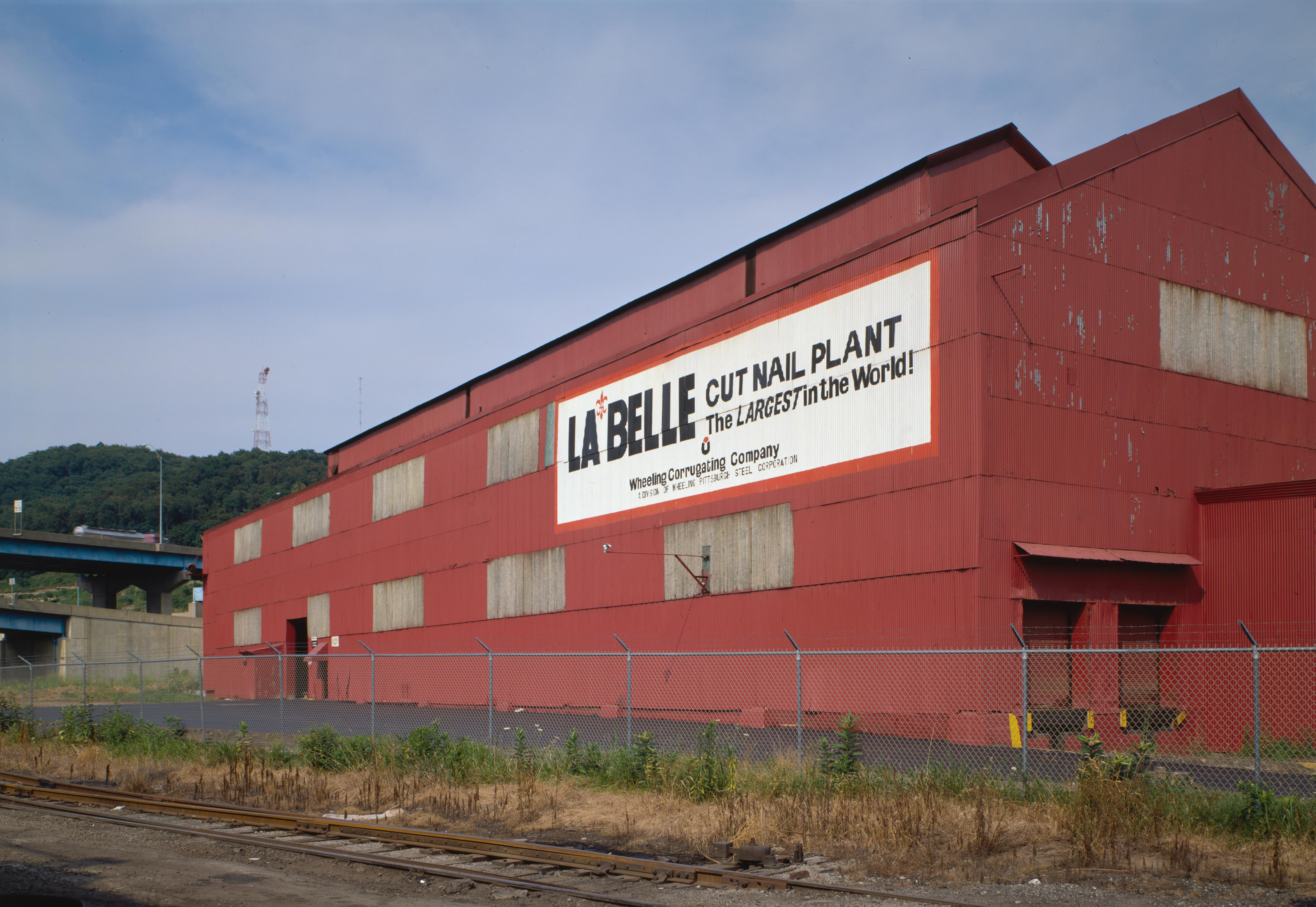 Northwestern and southwestern sides of the La Belle Iron Works, located at the junction of Thirty-first and Wood Streets in Wheeling, West Virginia, United States. Built in 1852, the La Belle complex is listed as a historic district on the National Register of Historic Places.